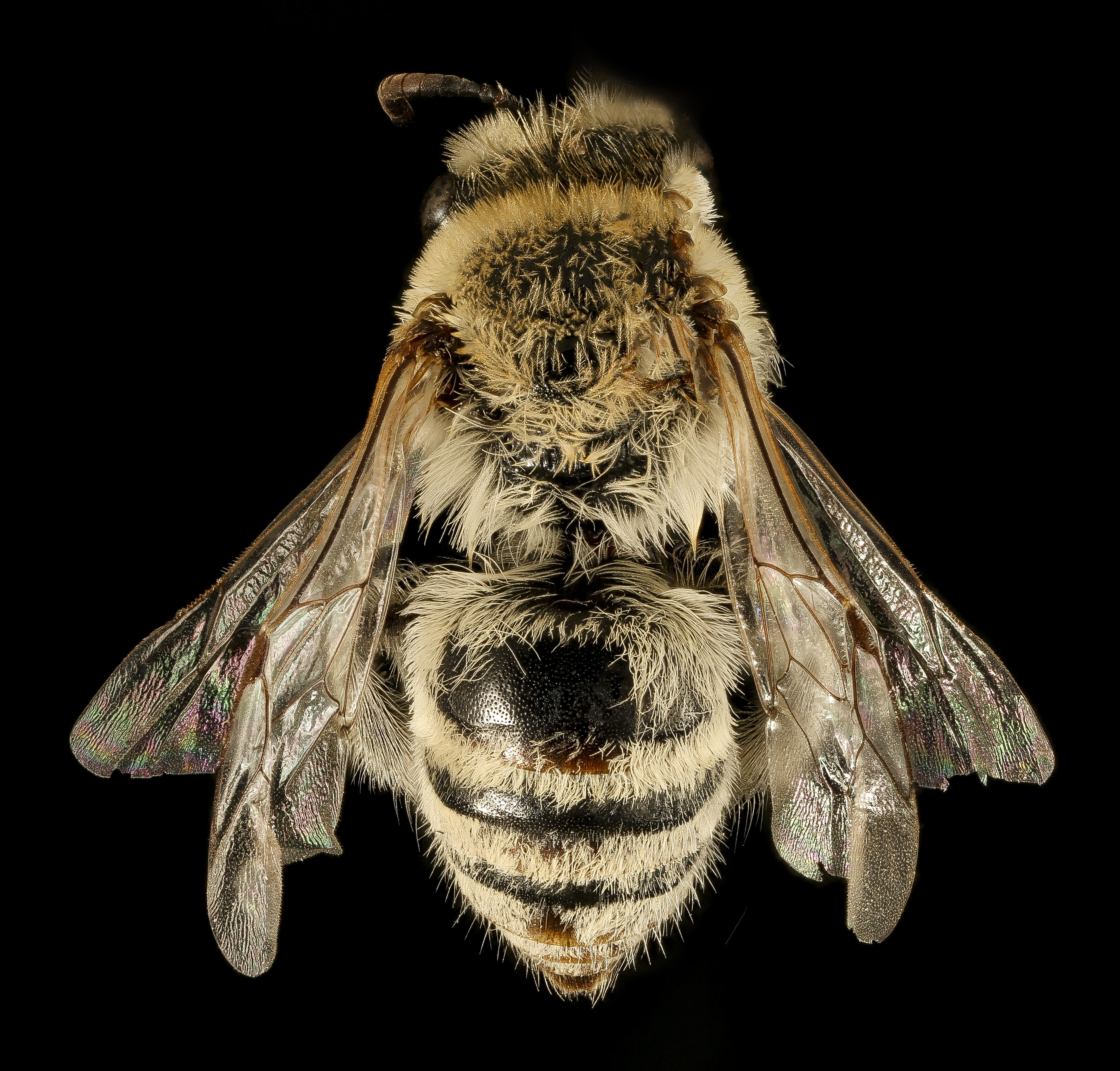 The bee genus Colletes...also known as Cellophane Bees because of their habitat of lining their cells with a plastic like substance...is full of relatively uncommon bees that specialist on a the pollen of a small number of plants or groups of plants. This may be the case with C. phaceliae given its name...but I am not clear. This bees was colleted at Badlands National Park in South Dakota. Photograph by Dejen Mengis. 02:58, 29 February 2016 (UTC)02:58, 29 February 2016 (UTC) 0 02:58, 29 February 2016 (UTC)02:58, 29 February 2016 (UTC) All photographs are public domain, feel free to download and use as you wish. Photography Information: Canon Mark II 5D, Zerene Stacker, Stackshot Sled, 65mm Canon MP-E 1-5X macro lens, Twin Macro Flash in Styrofoam Cooler, F5.0, ISO 100, Shutter Speed 200 Beauty is truth, truth beauty - that is all Ye know on earth and all ye need to know " Ode on a Grecian Urn" John Keats You can also follow us on Instagram account USGSBIML Want some Useful Links to the Techniques We Use? Well now here you go Citizen: Art Photo Book: Bees: An Up-Close Look at Pollinators Around the World Basic USGSBIML set up: USGSBIML Photoshopping Technique: Note that we now have added using the burn tool at 50% opacity set to shadows to clean up the halos that bleed into the black background from "hot" color sections of the picture. PDF of Basic USGSBIML Photography Set Up: ftp://ftpext.usgs.gov/pub/er/md/laurel/Droege/How%20to%20Take%20MacroPhotographs%20of%20Insects%20BIML%20Lab2.pdf Google Hangout Demonstration of Techniques: or Excellent Technical Form on Stacking: Contact information: Sam Droege 301 497 5840